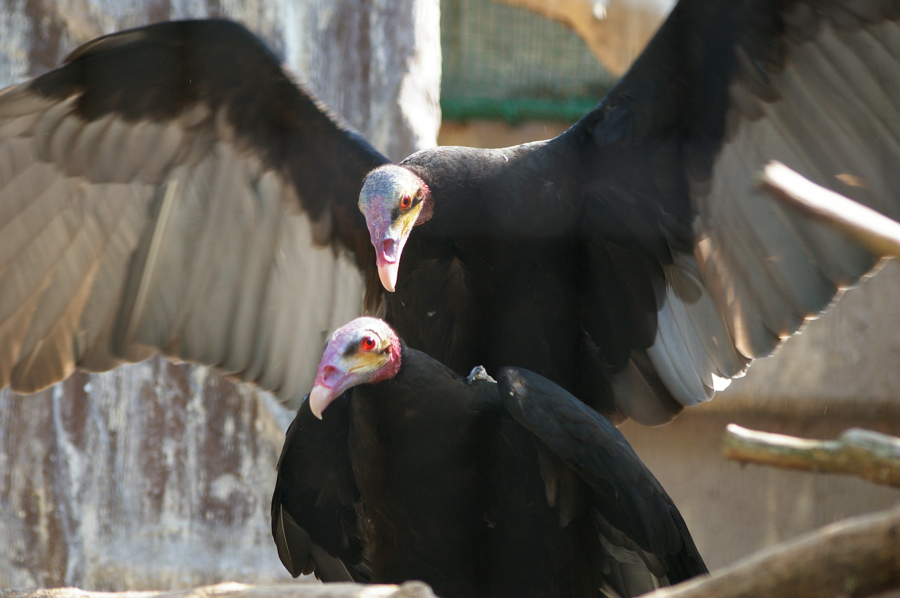 Lesser Yellow-headed Vulture (Cathartes burrovianus) at Tennoji Zoo in Osaka, Japan.